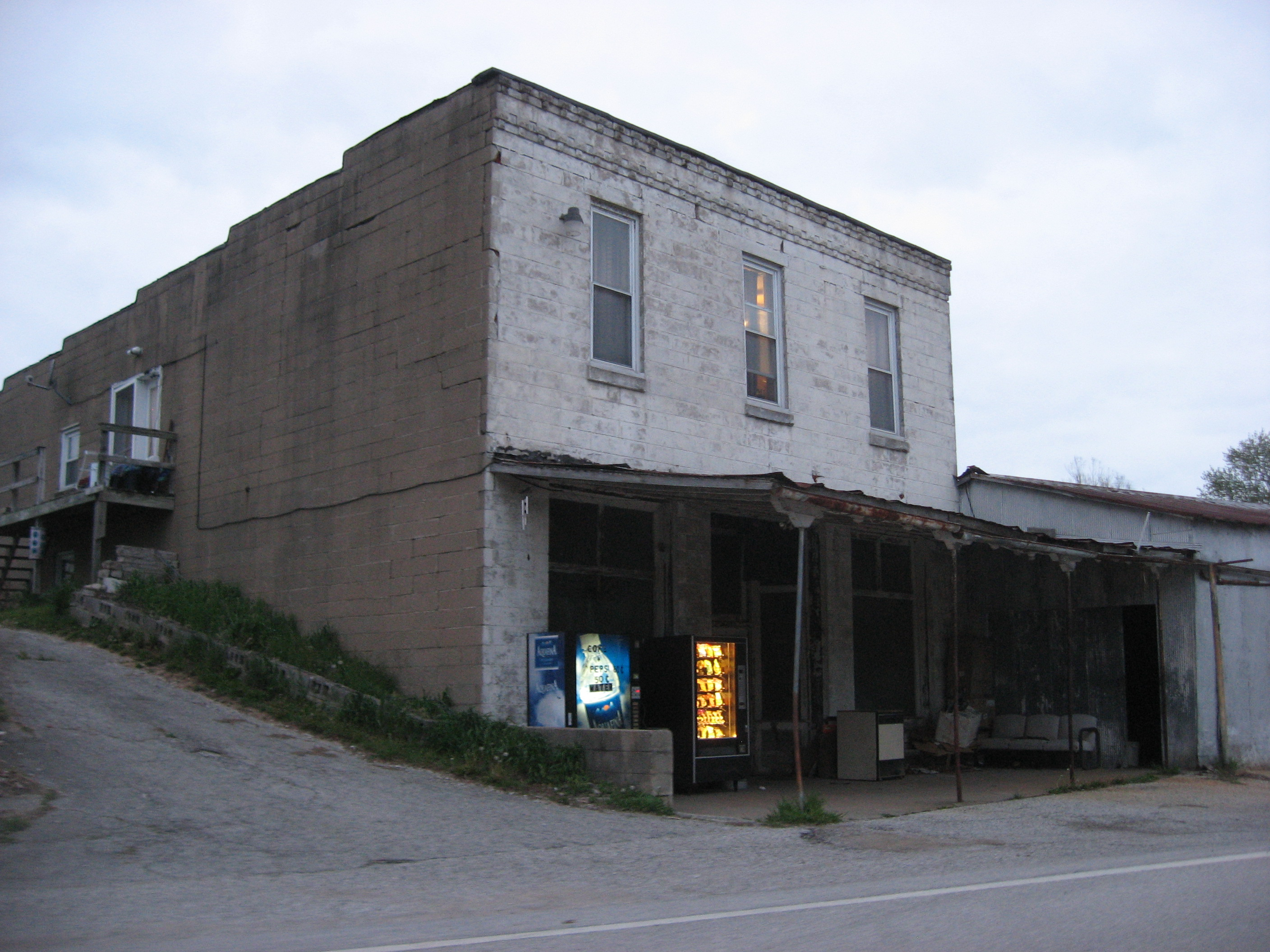 Front and southern side of the former Hendricksville post office and general store, located on State Road 43 in Beech Creek Township, Greene County, Indiana, United States. It was built in 1905 and remained in its original use only until 1917.